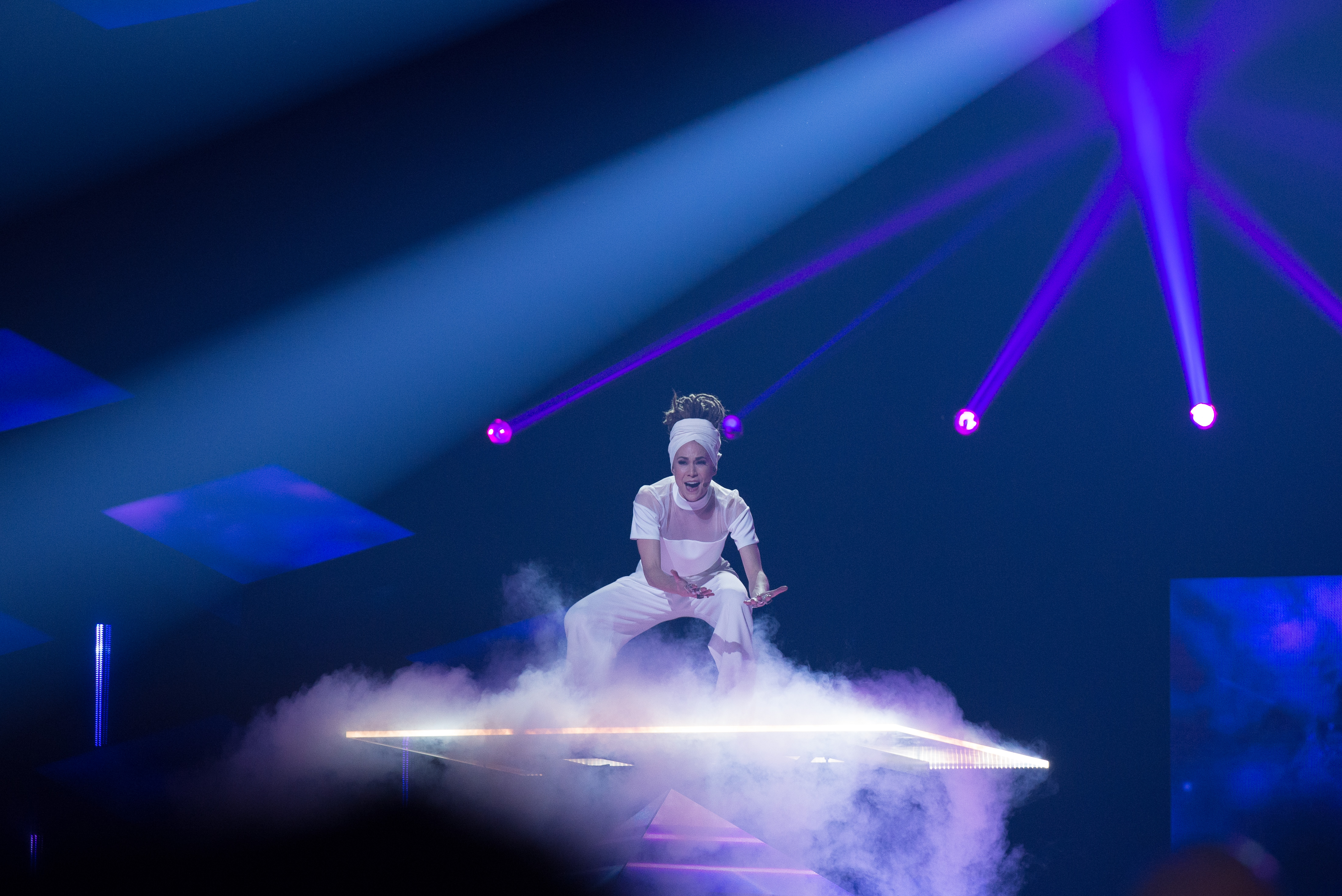 Melodifestivalen 2018 Final in Stockholm